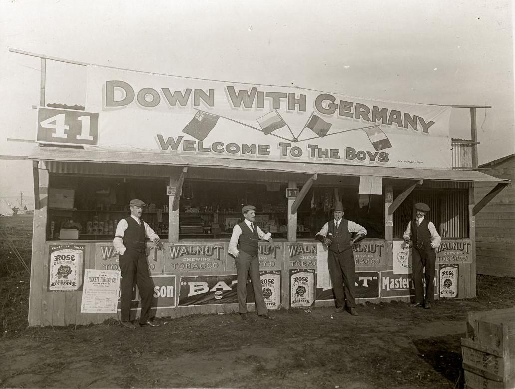 Concession stand no. 41 at the Valcartier military base near Quebec City, with a "Down with Germany - Welcome to the Boys" sign and various advertisements for tobacco products.